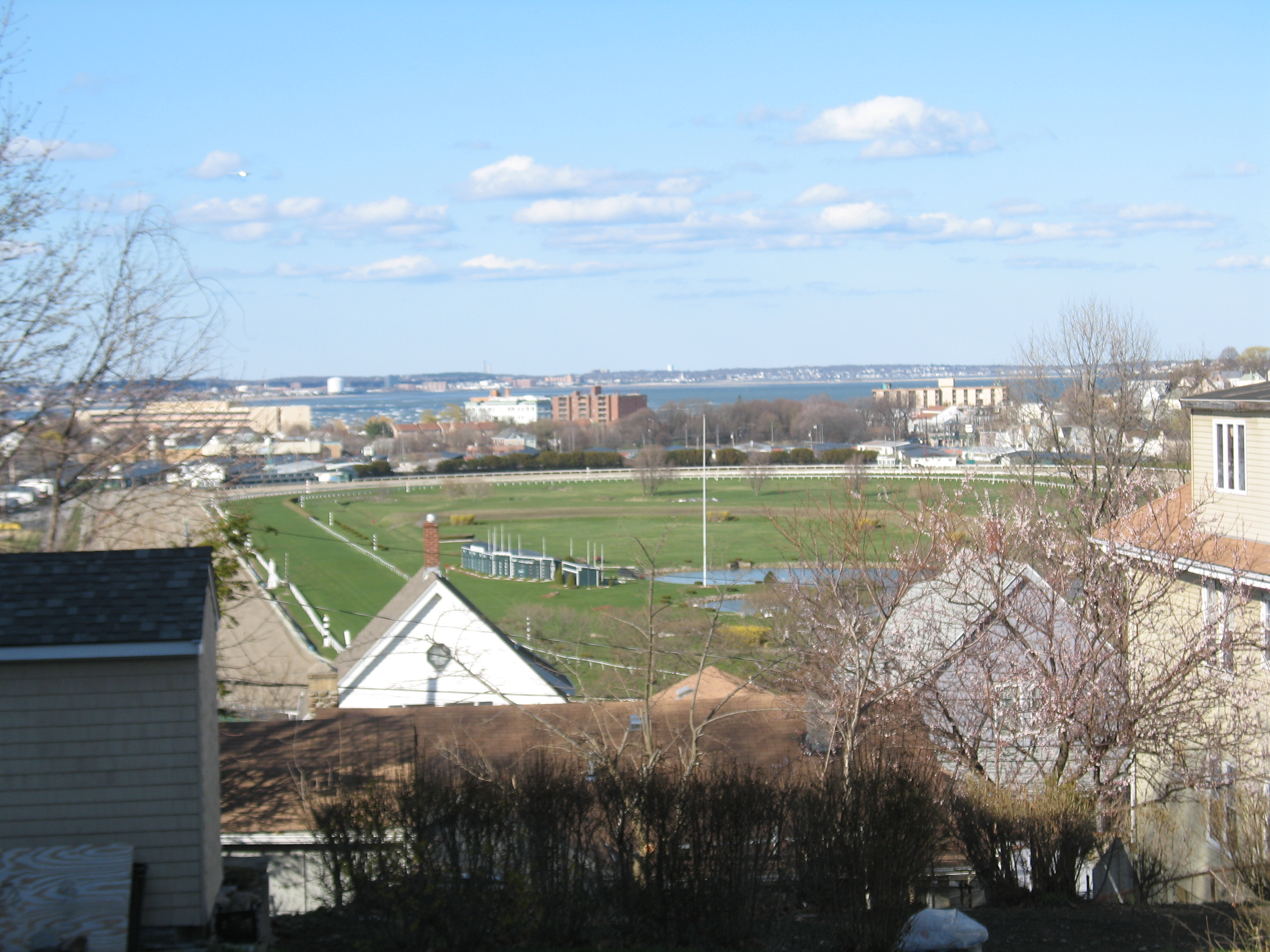 Suffolk Downs, East Boston as seen from Beachview Street.